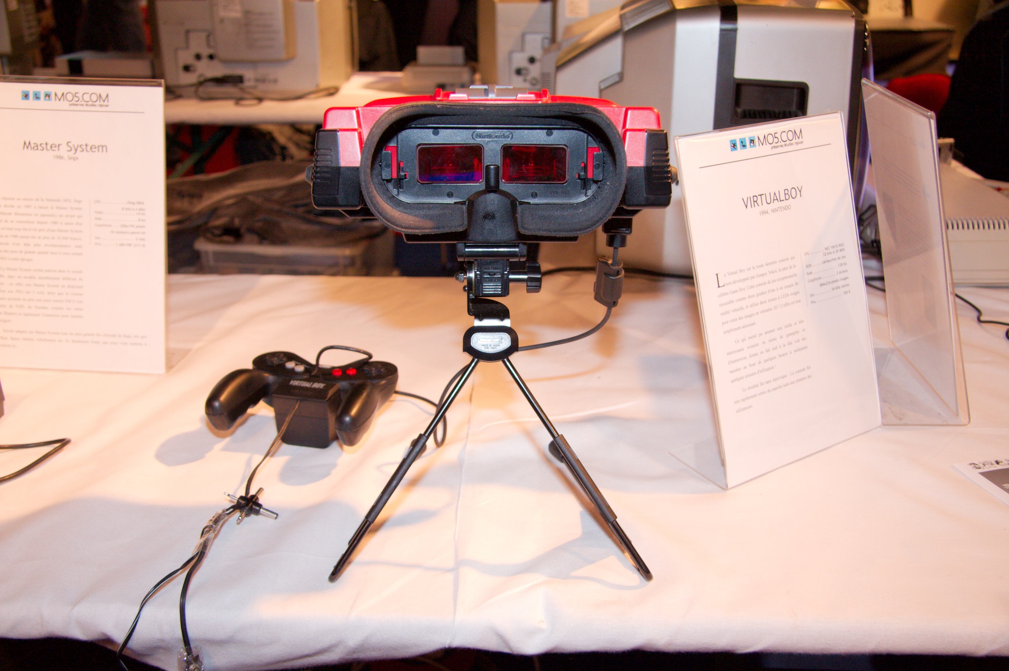 Nintendo Virtual Boy. Festival du jeu vidéo 2008 (video game festival) (Paris, France).